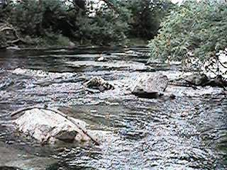 Chino Creek — in San Bernardino County, Southern California. A tributary of the Santa Ana River, from the San Gabriel Mountains.